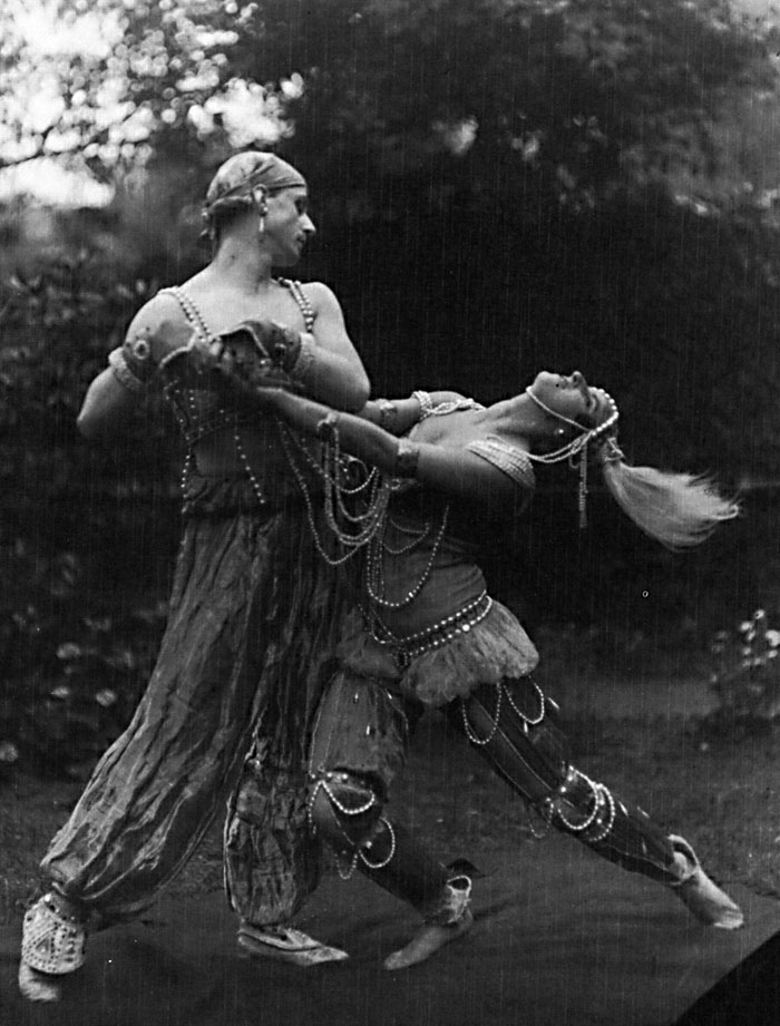 Michel Fokine and Vera Fokina in the ballet Schéhérazade